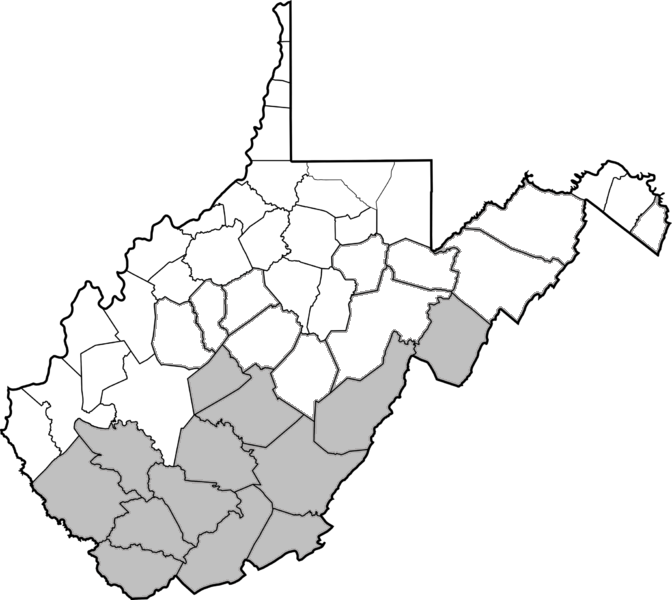 Map of West Virginia Counties held by the Confederate States government in Feb. 1863